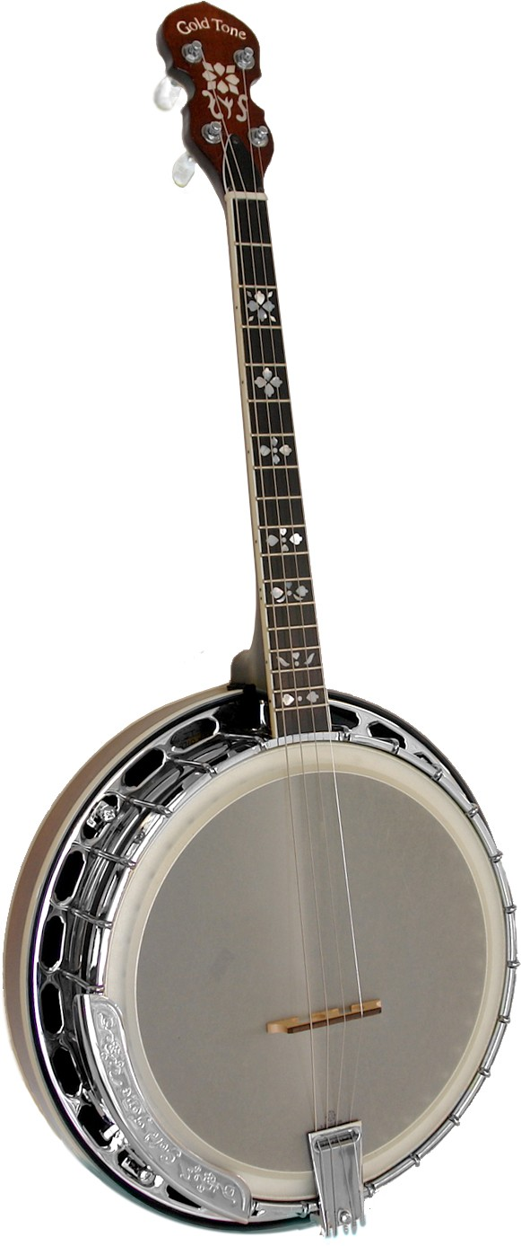 Gold Tone Irish Tenor Banjo